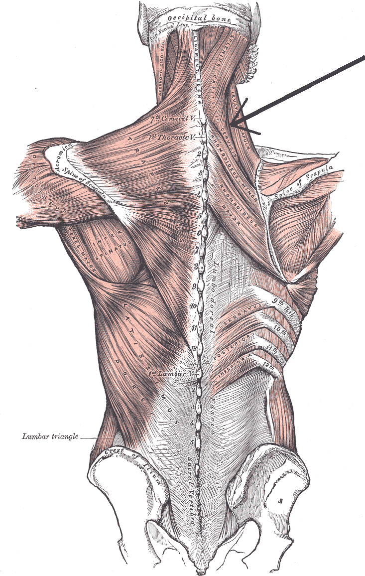 Muscles connecting the upper extremity to the vertebral column.